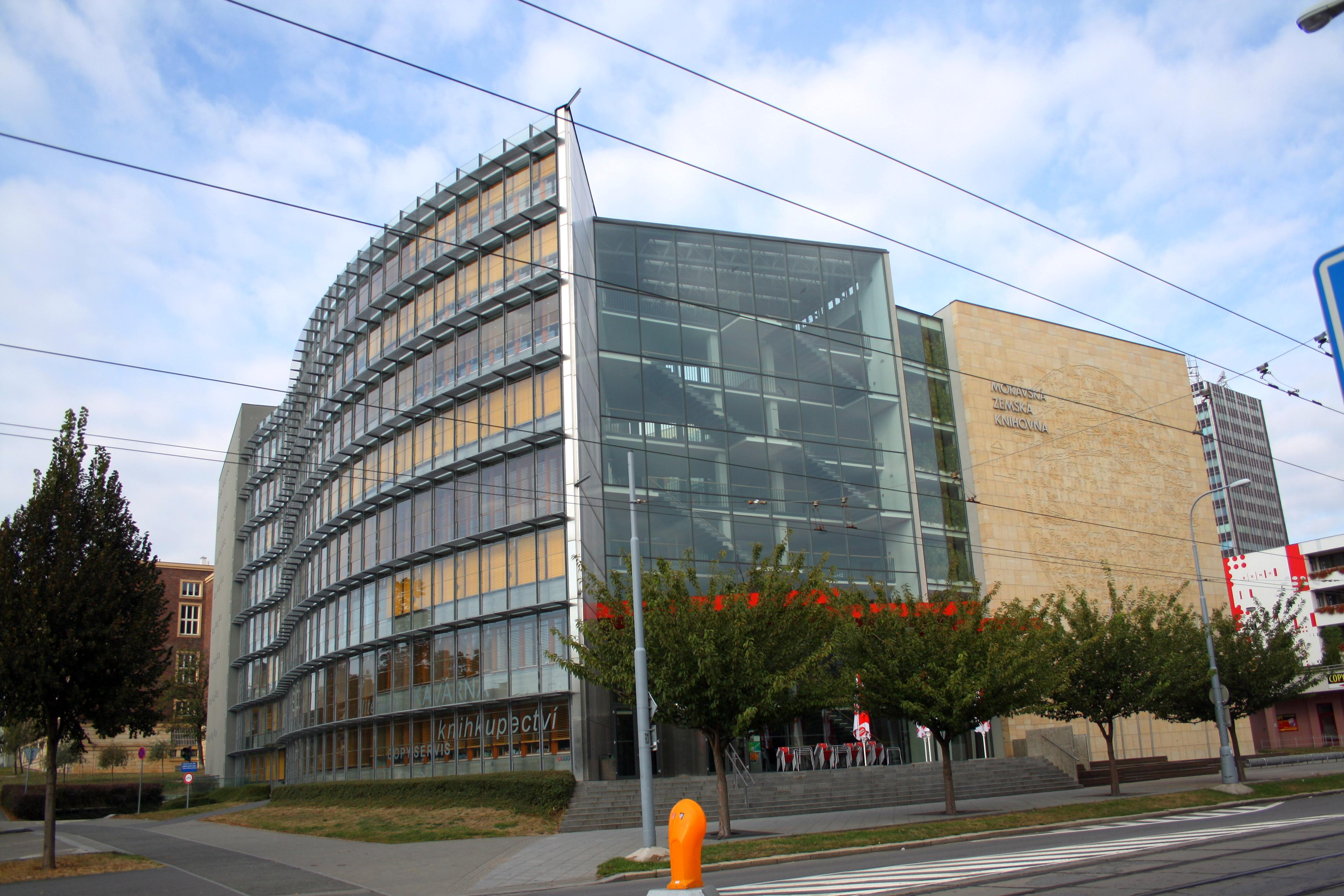 Overview of Moravian library Brno.